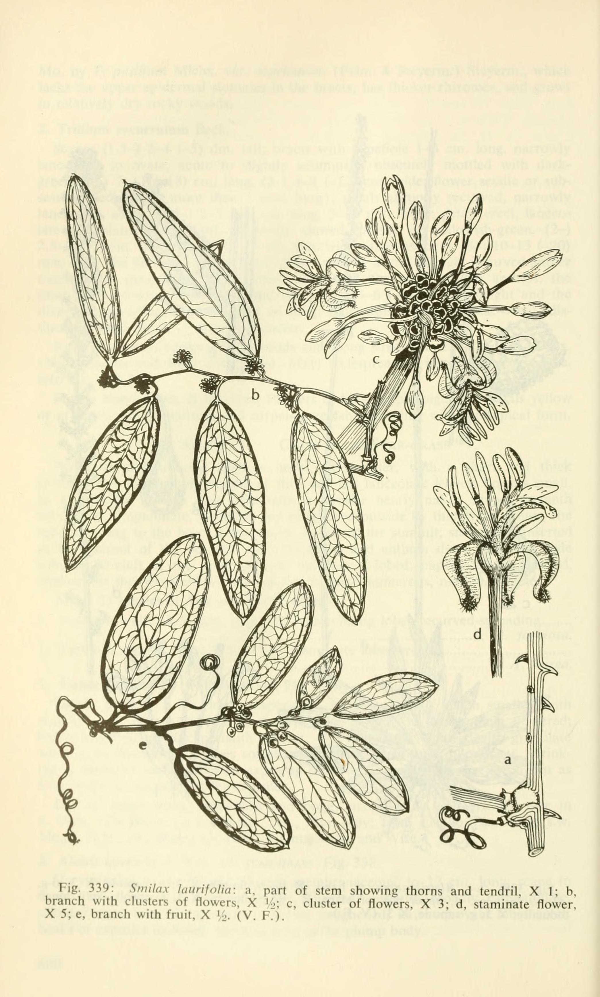 Aquatic and wetland plants of southwestern United States, by Donovan S. Correll and Helen B. Correll.